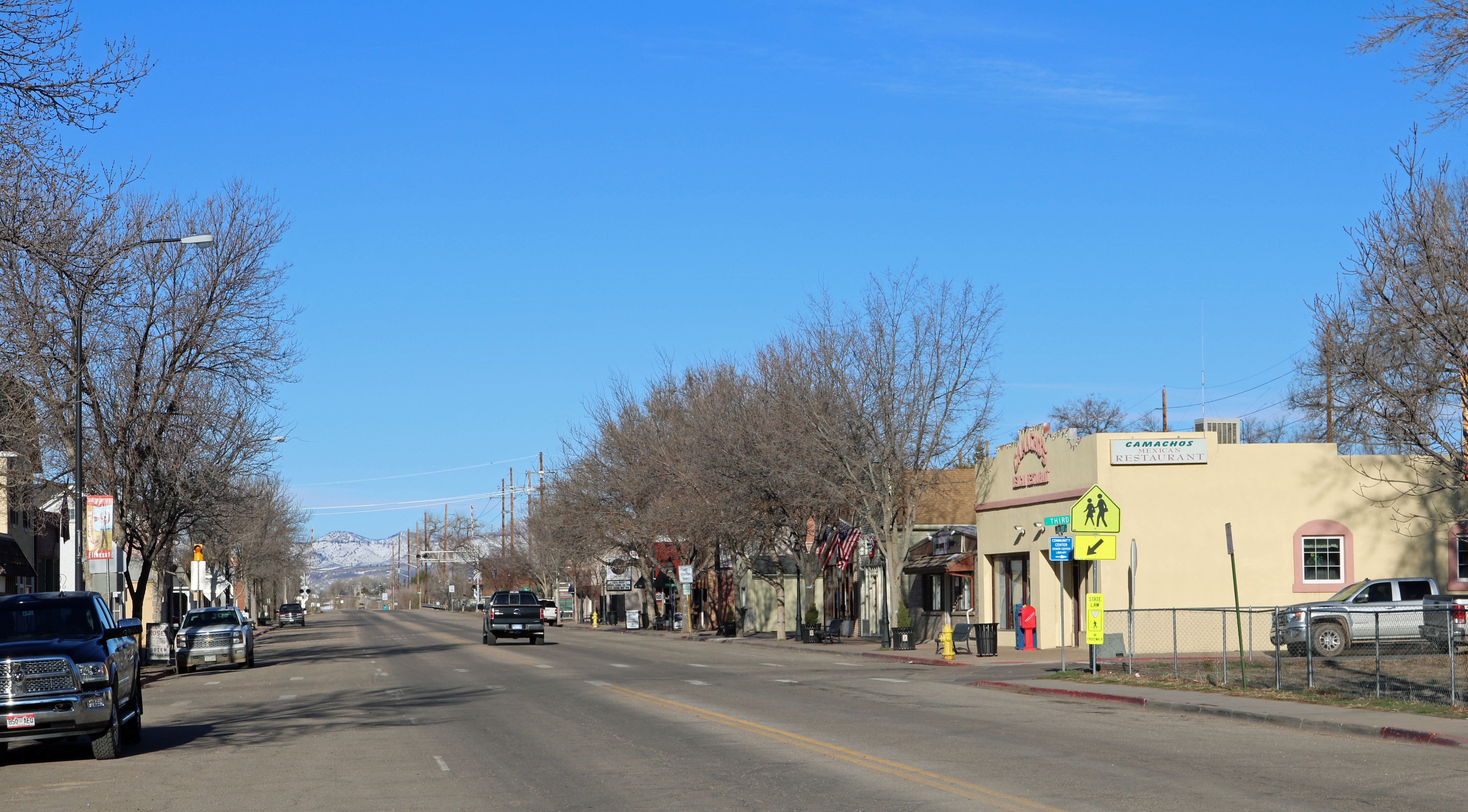 A view of Cleveland Avenue in Wellington, Colorado. The view is looking towards the west.